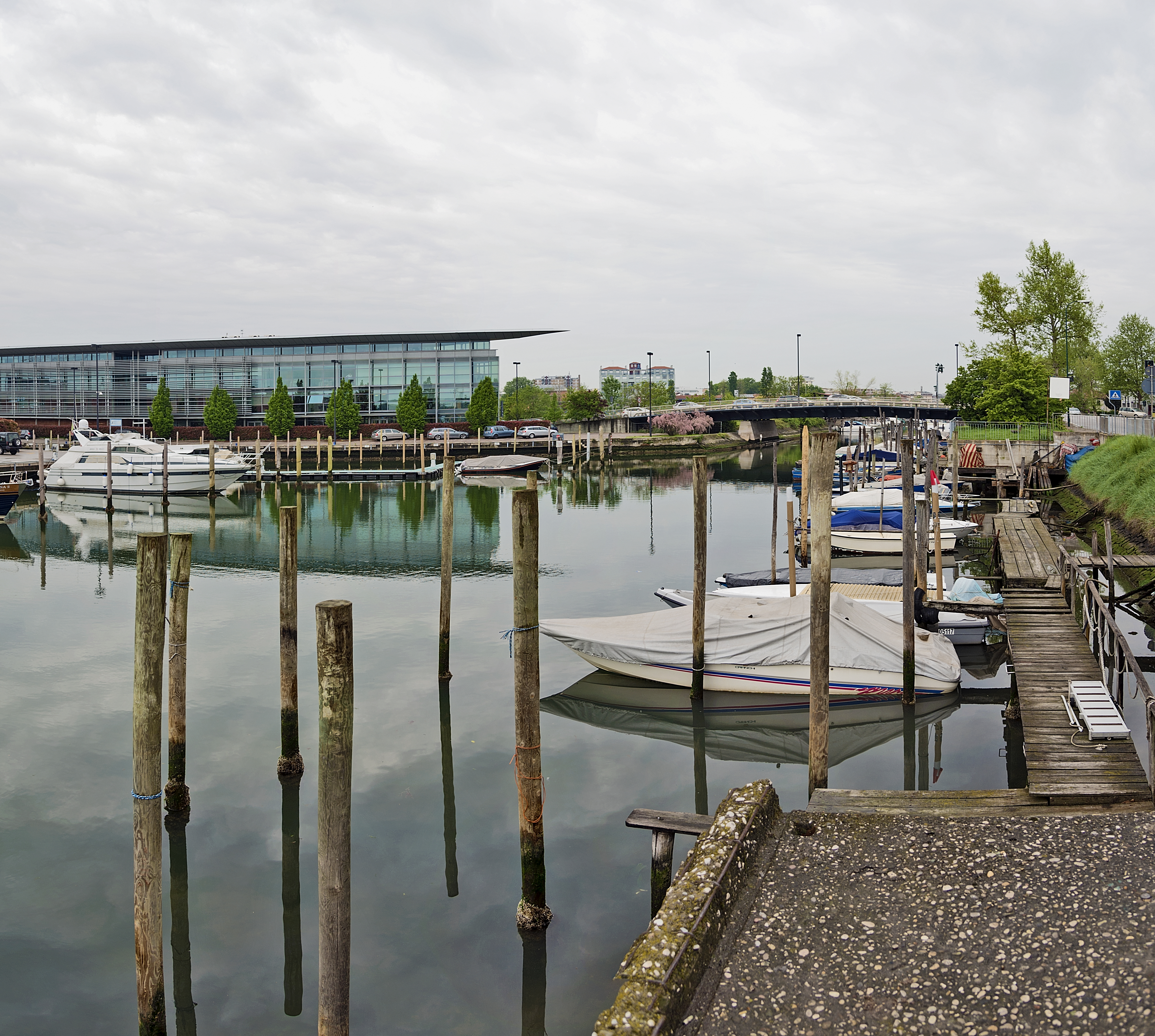 Canal Salso, Meste